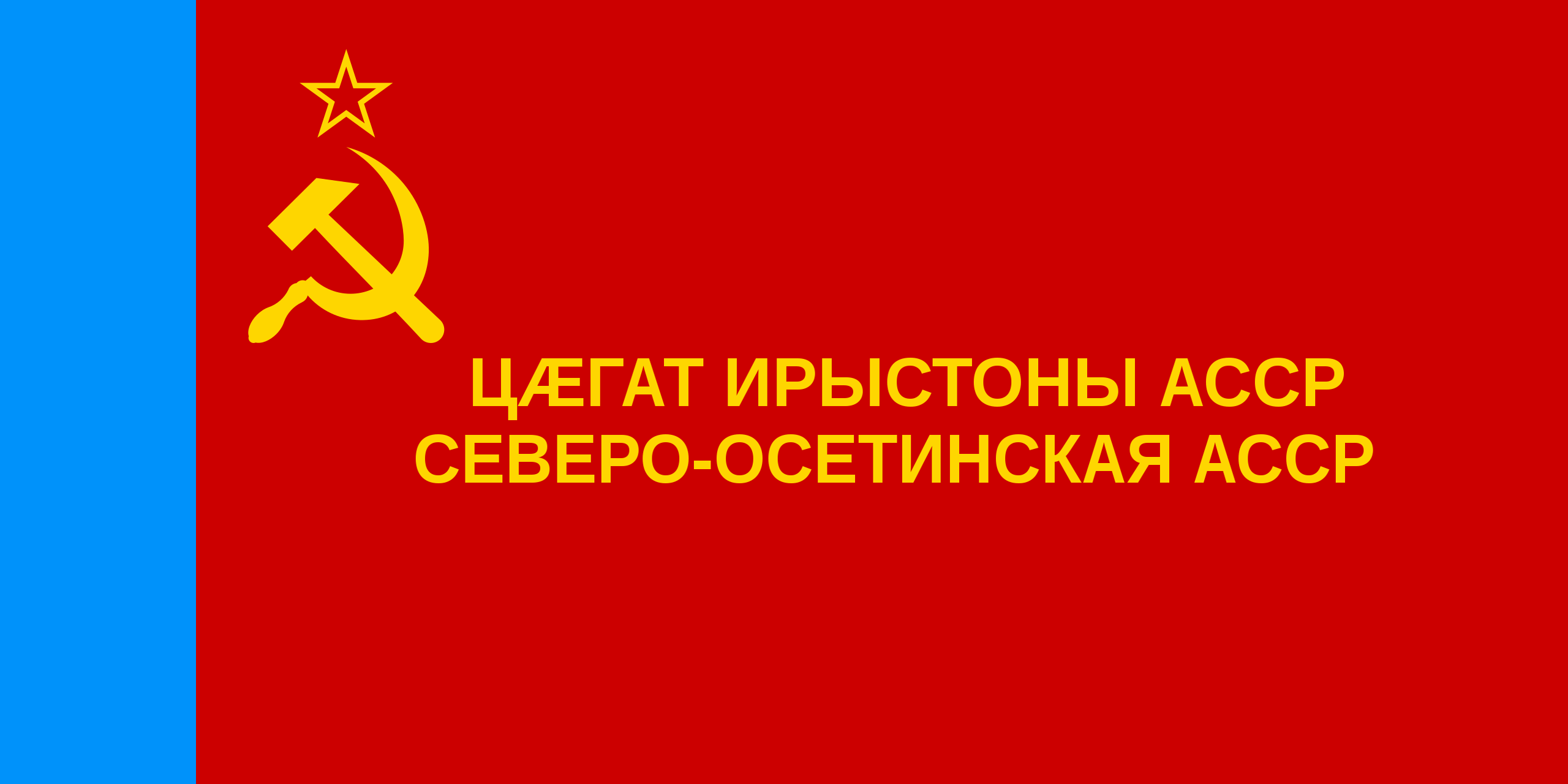 Flag of North-Ossetian ASSR (1954-1981)